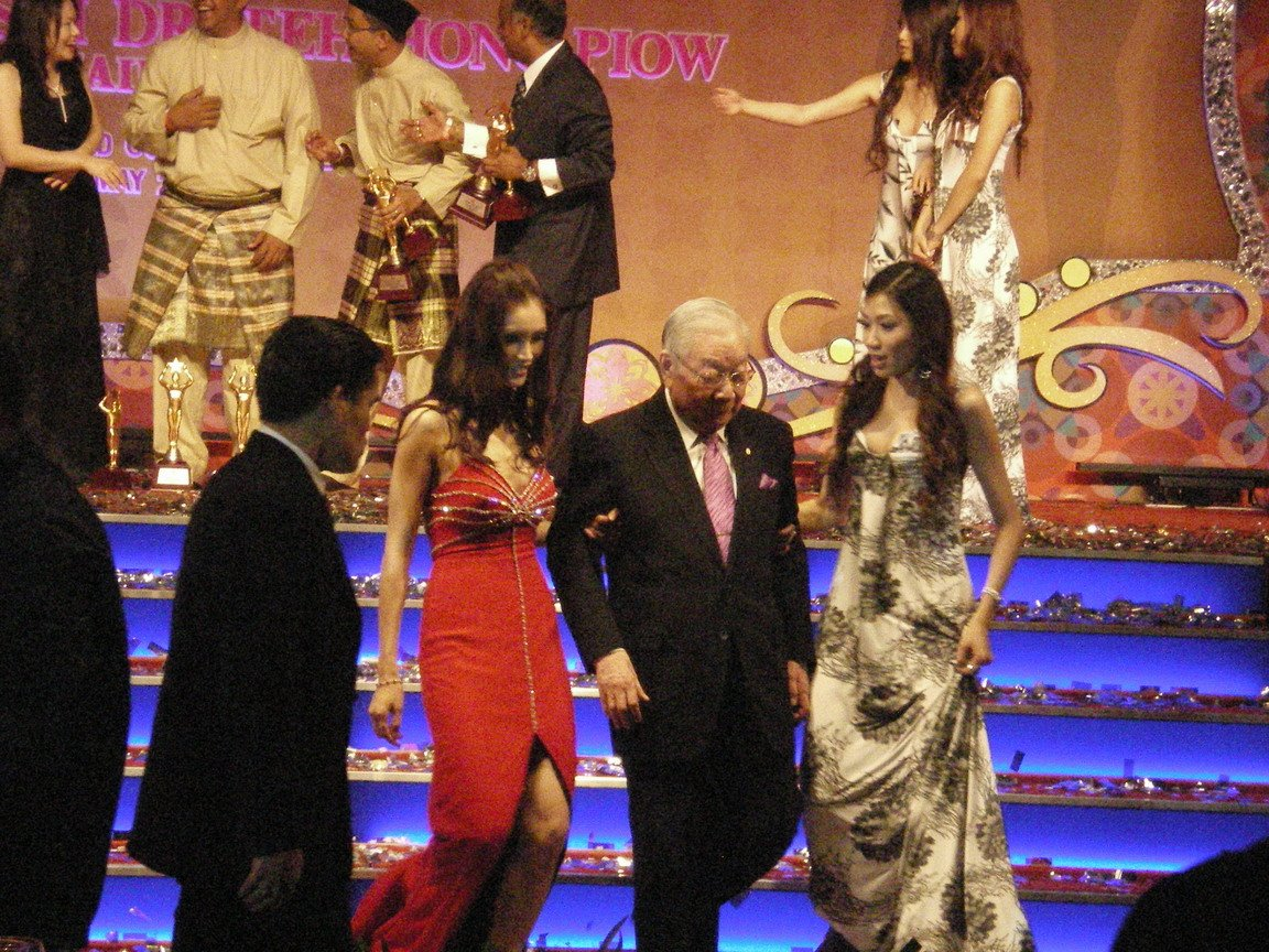 Amber Chia escorting Tan Sri Teh Hong Piow during the 2009 Annual Awards Night, a private Public Bank Function.This shows Amber is having a very close relationship with Teh